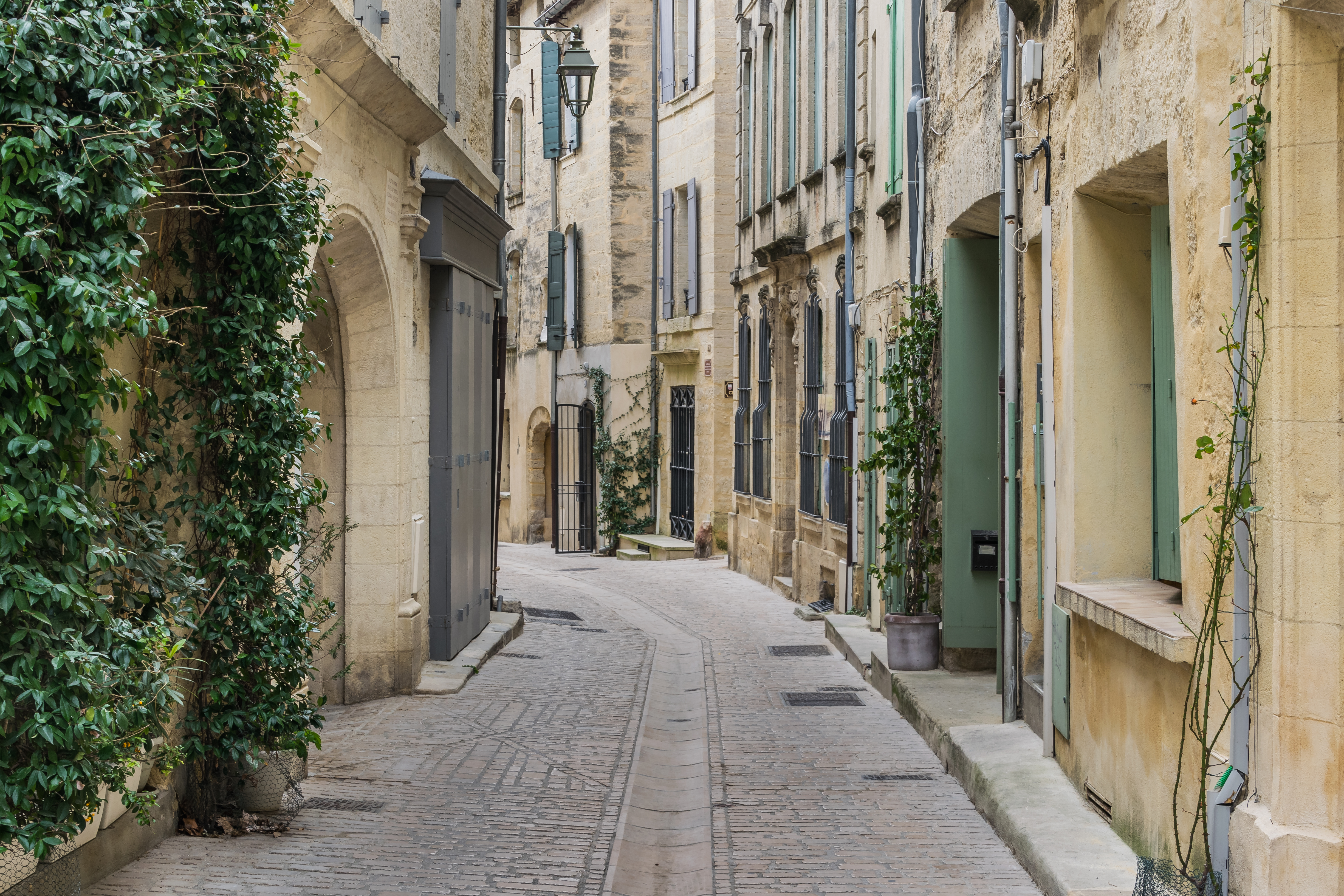 Rue de la Petite Bourgade in Uzès, Gard, France